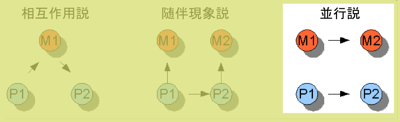 Diagram of Parallelism in Japanese. One of the ideas in the field, philosophy of mind.